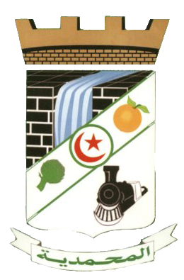 Coats of arms of Mohammadia (Mascara Province - Algeria)